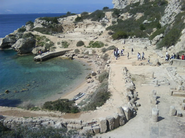 Heraion of Perahora Loutraki